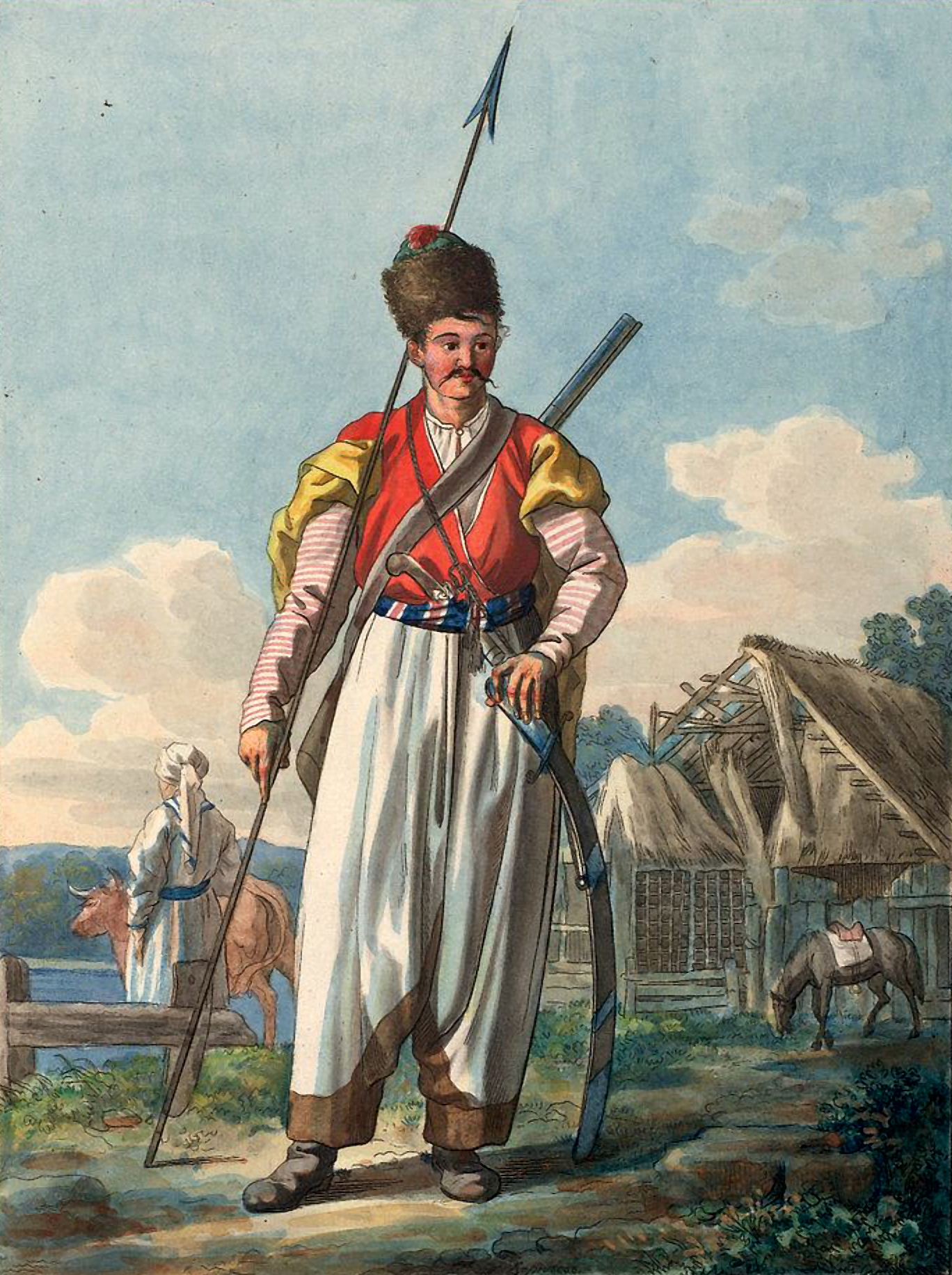 Kossack of Black Sea.